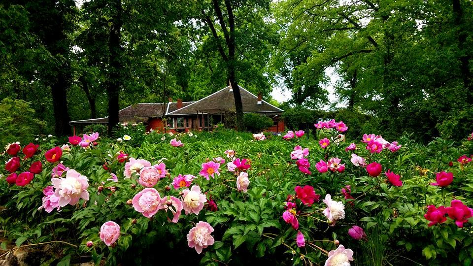 T.C. Steele's final home, located in Brown County, Indiana. Today the house exists as a part of the T.C. Steele State Historic Site.